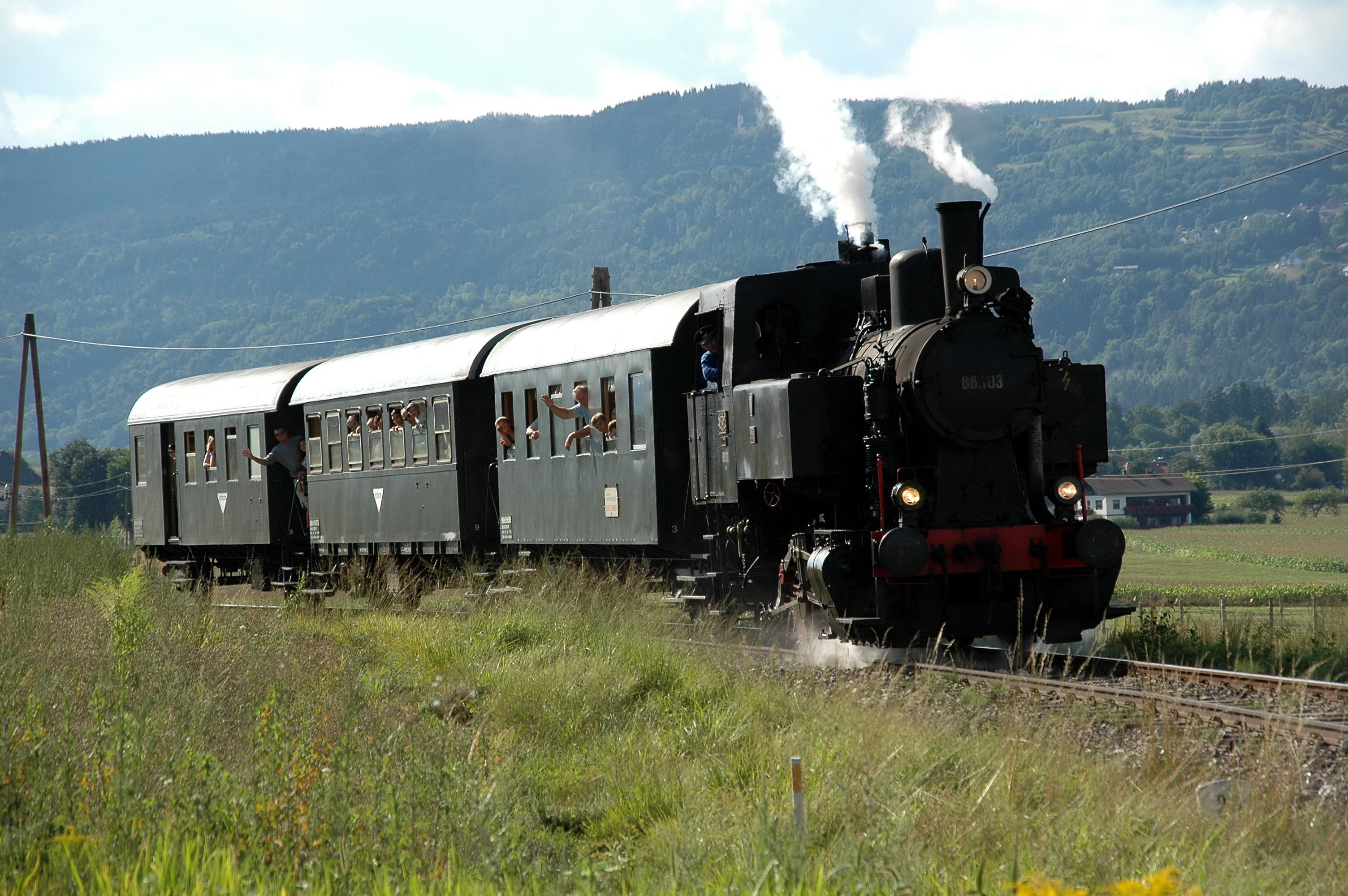 Museum-train in valley Rosen (Rosental) between Weizelsdorf and Ferlach, Carinthia, Austria